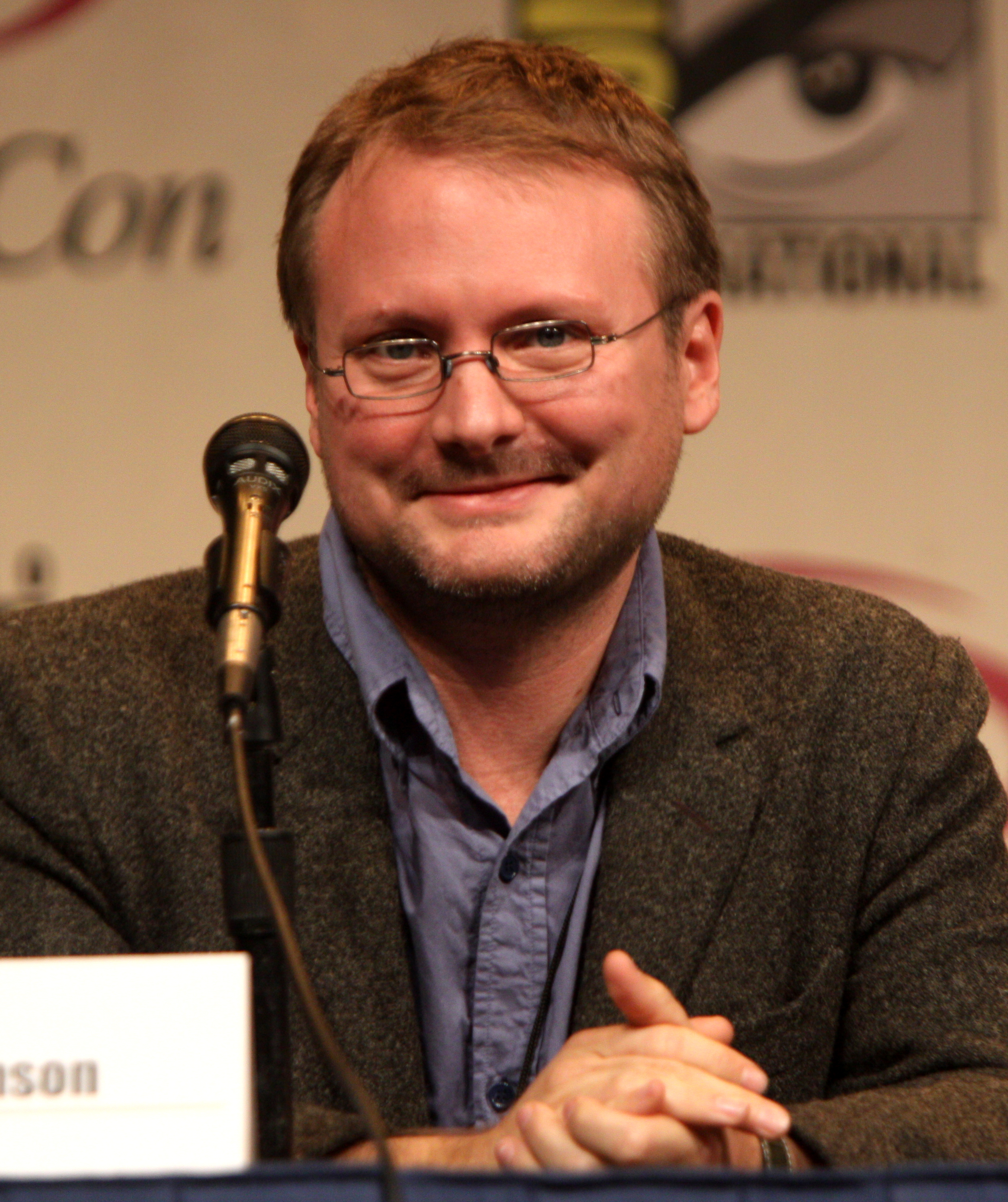 Rian Johnson speaking at Wondercon 2012 in Anaheim, California on March 17, 2012.